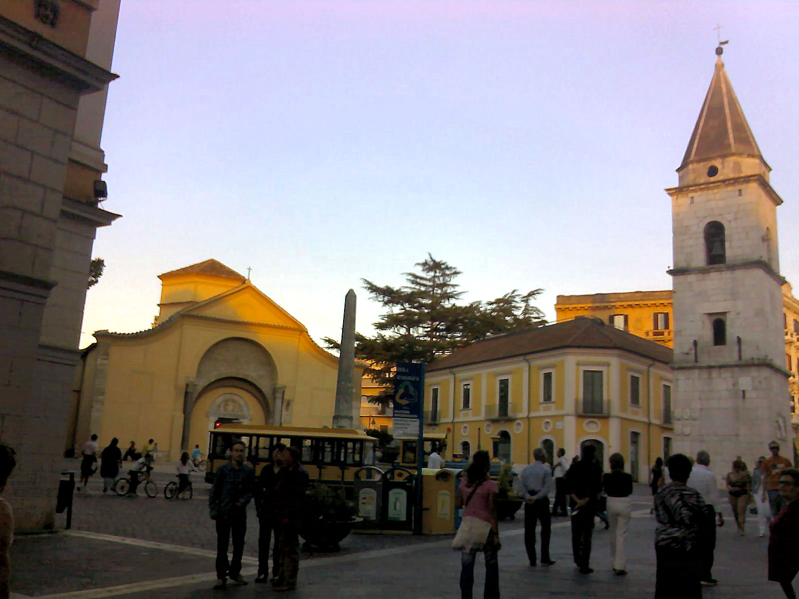 Matteotti square in Benevento, Italy, with the Longobard Church of Santa Sofia, its bell tower and the obelisk of the Chiaromonte Fountain.